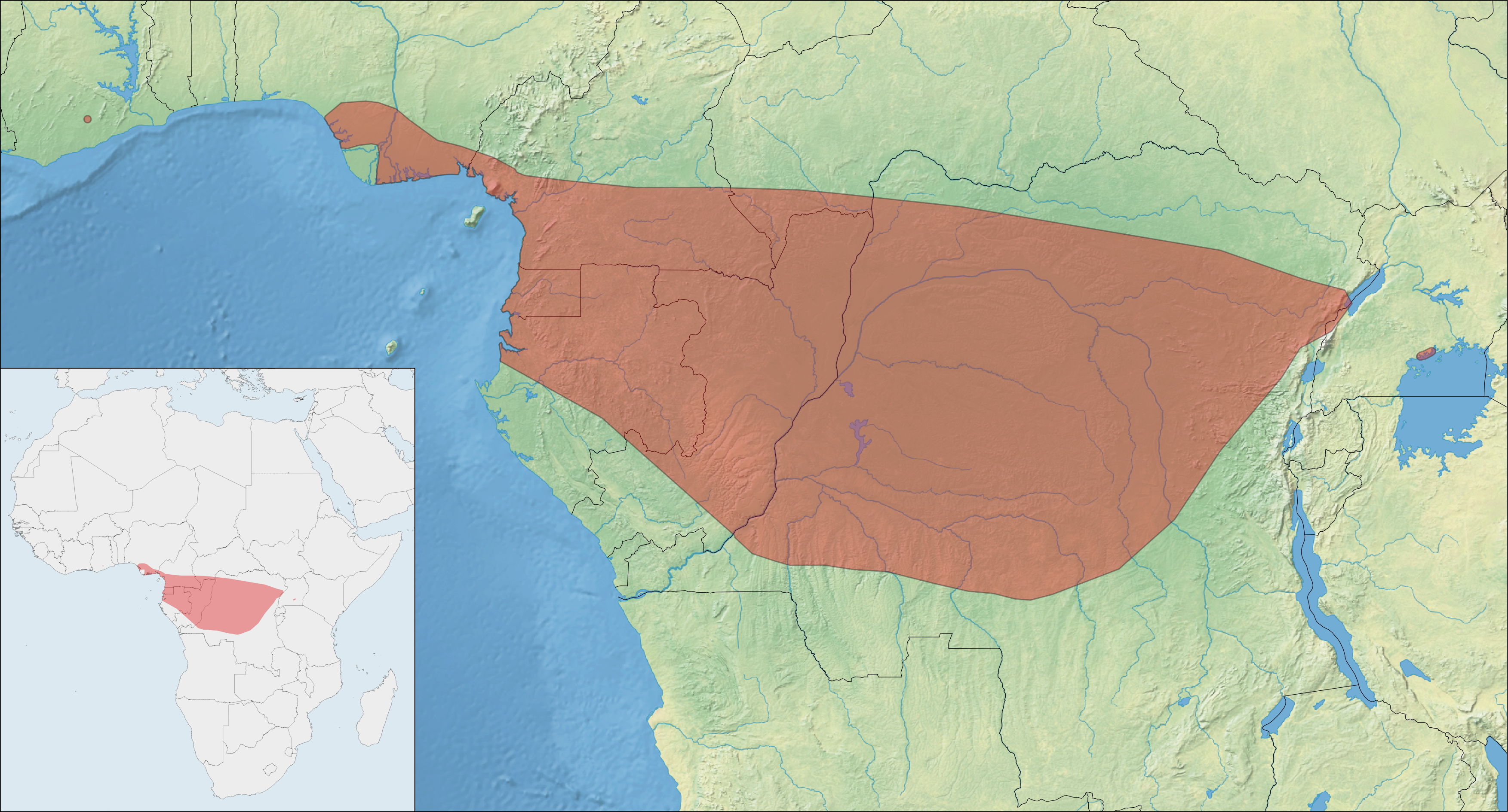 Geographic range of Myopterus whitleyi